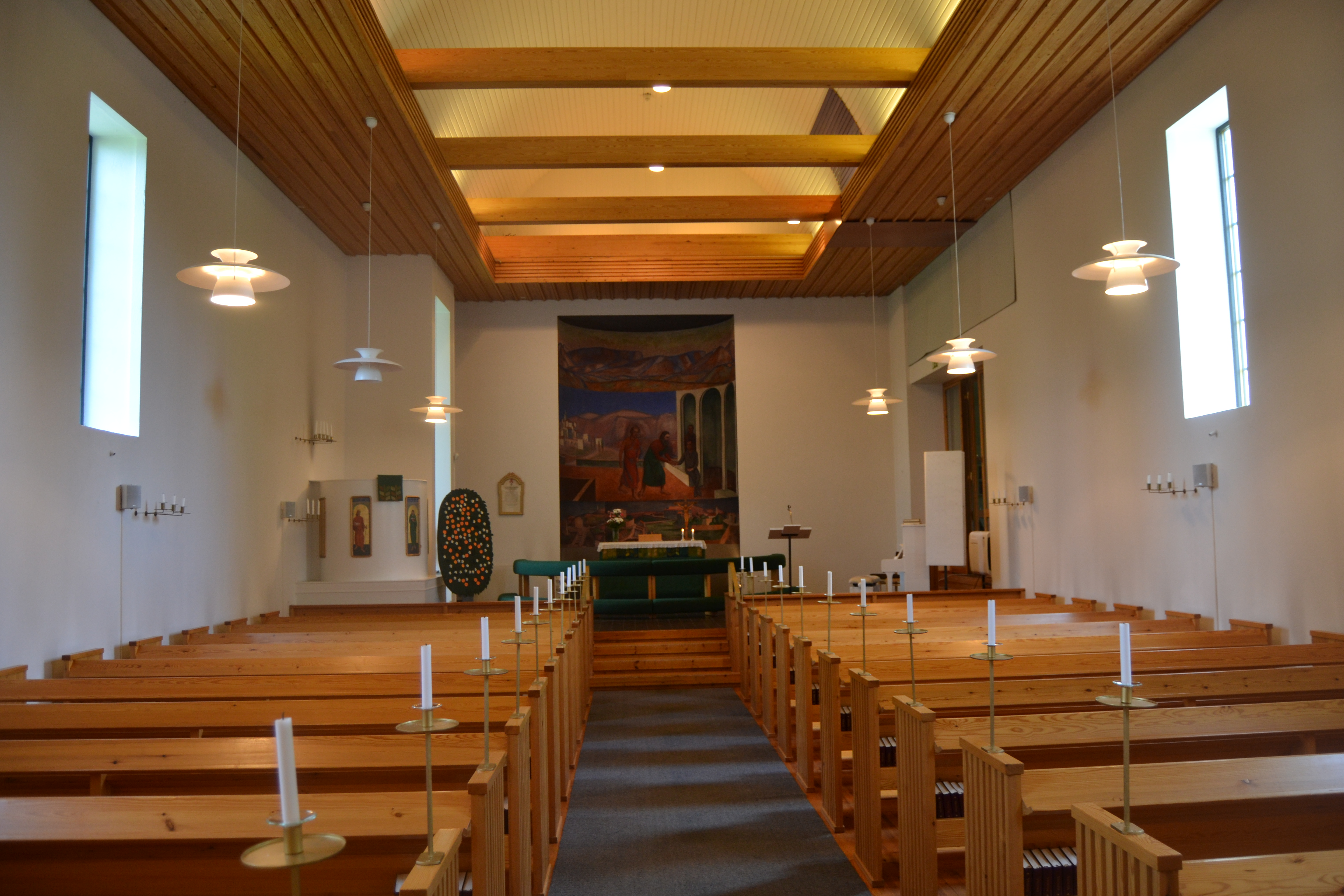 Interior of Muurame Church in Finland